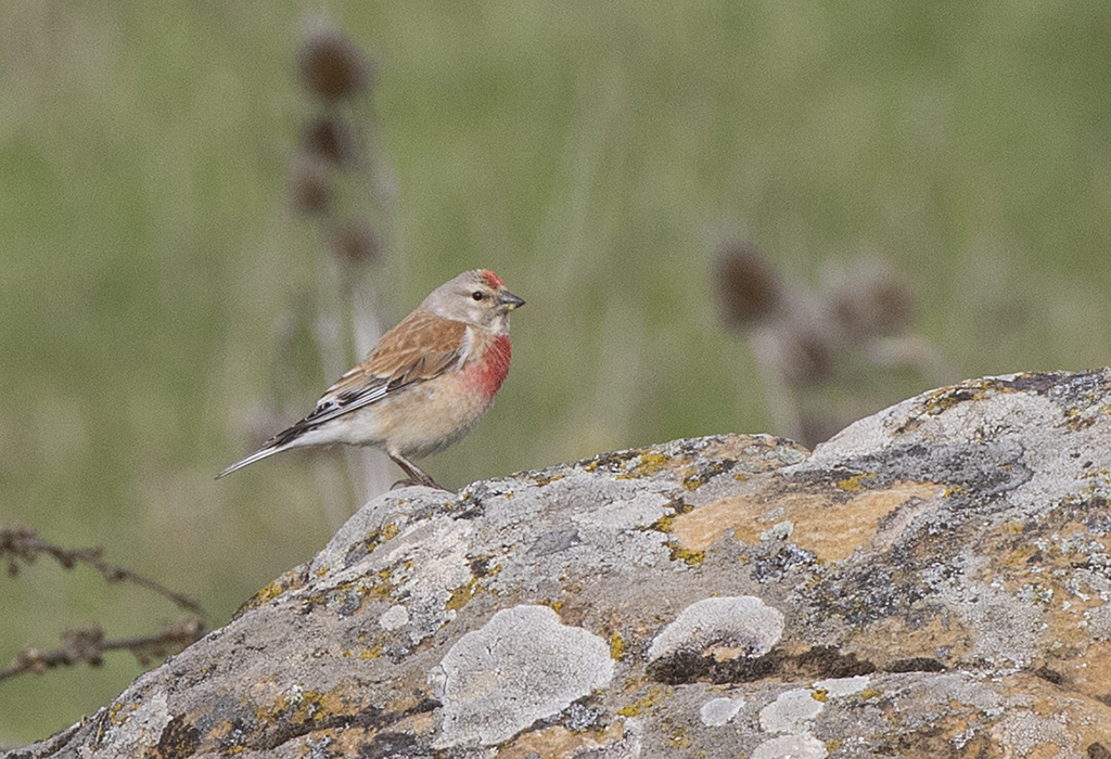 Common Linne (Linaria cannabina). Güzelim, Tufanbeyli - Adana, Turkey.